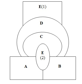 Một nước phải là một vùng liên thông